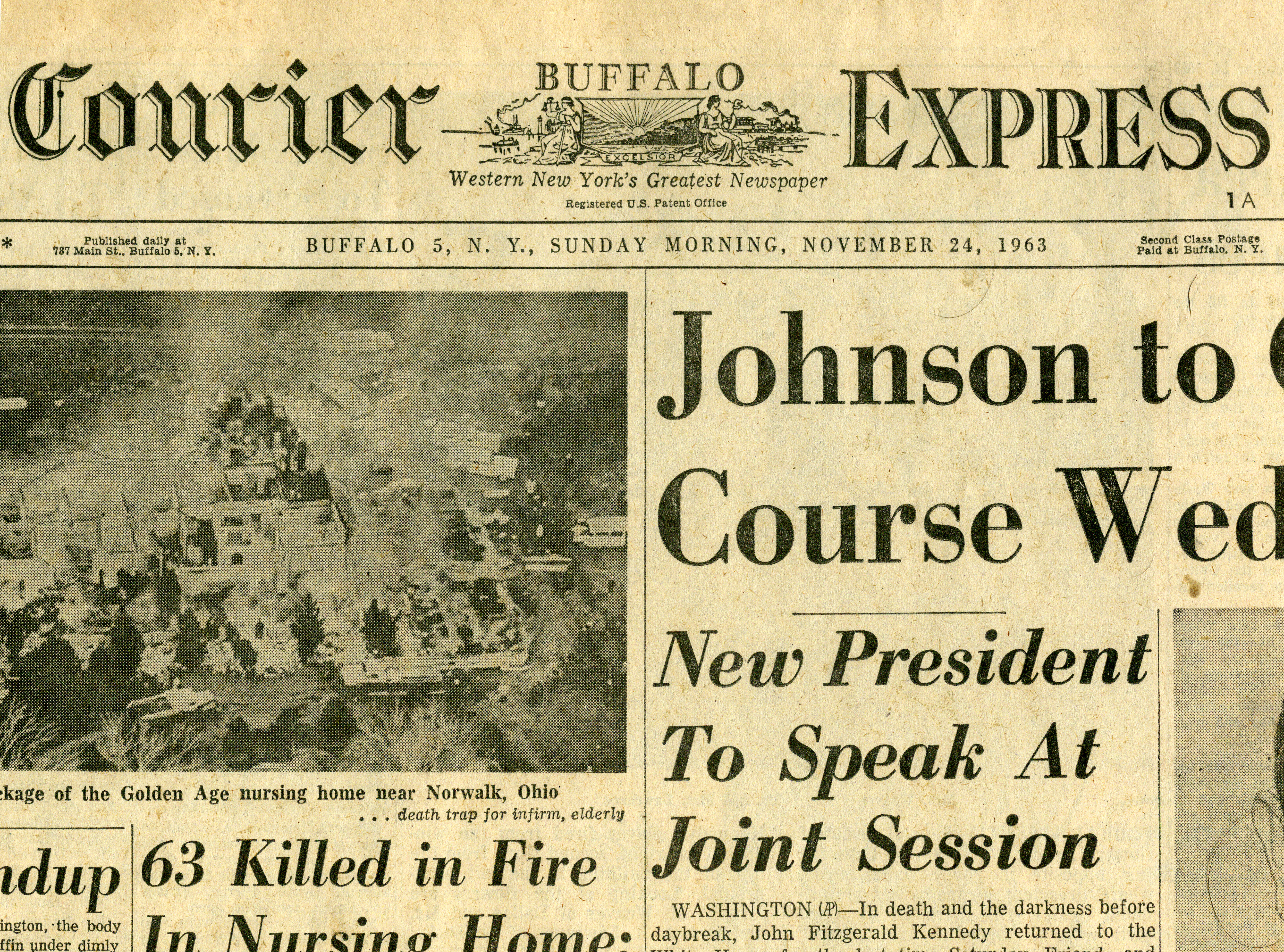 Image of the Buffalo Courier Express Newspaper